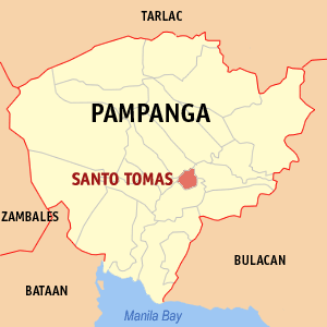 Map of Pampanga showing the location of Santo Tomas